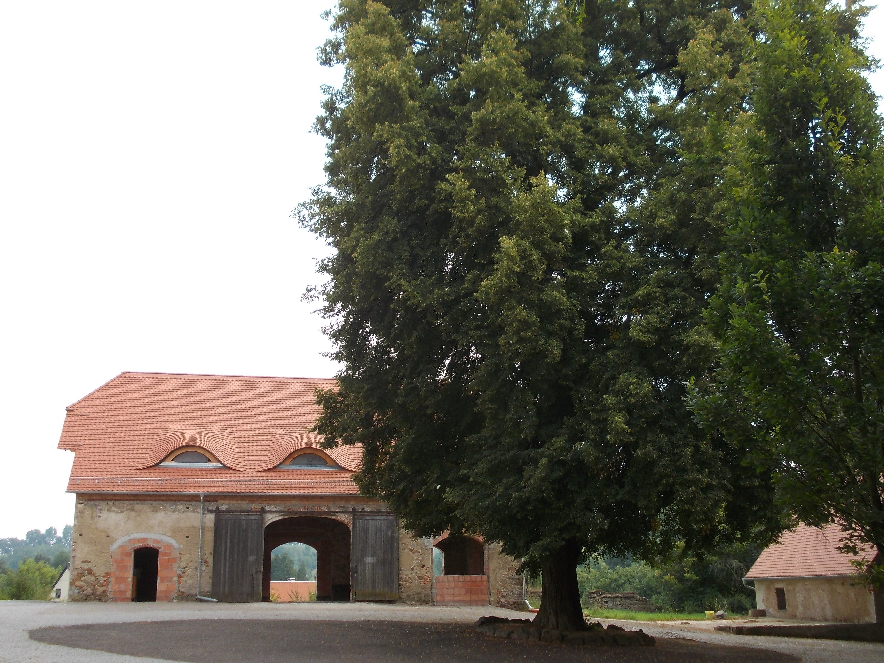 The former Cistercian nunnery of Marienthal in Sornzig (Mügeln, Nordsachsen district, Saxony)